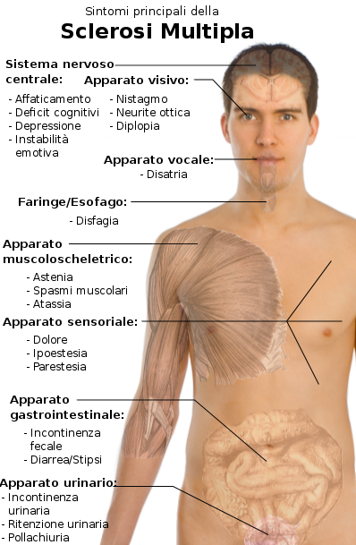 Main symptoms of Multiple sclerosis. Sources are found in main article: Wikipedia:Multiple sclerosis#Signs and symptoms. Model: Mikael Häggström. To discuss image, please see Template_talk:Häggström diagrams